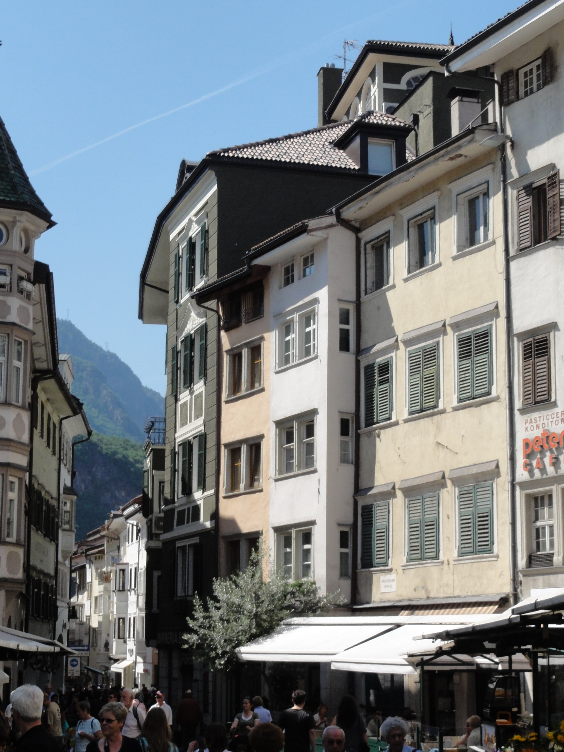 The Obstmarkt in Bolzano (Bozen): The building in light yellow on the right is Erbsengasse 11, the building in white in the centre is Goethestraße 2